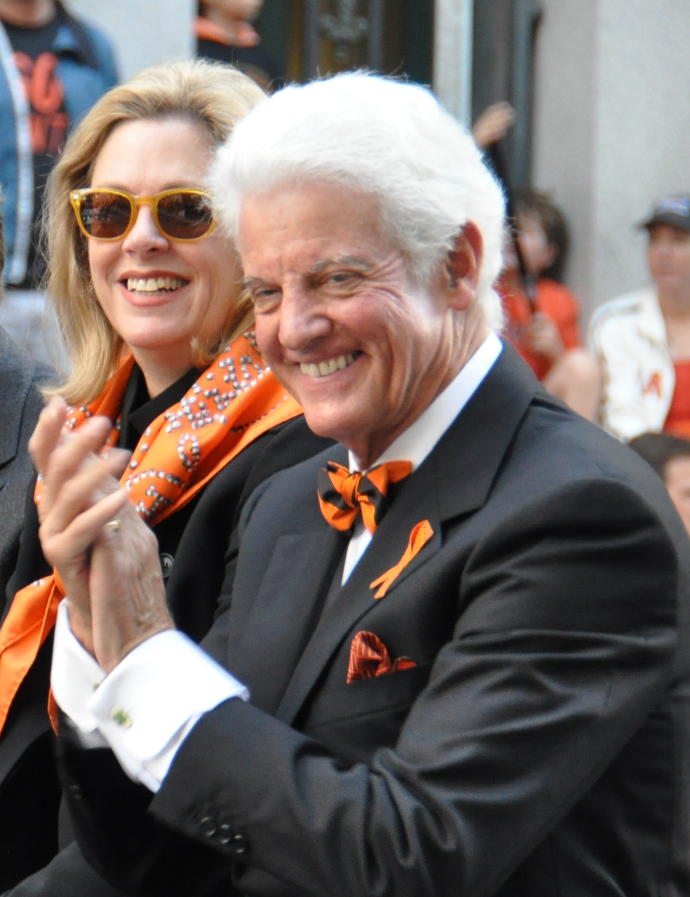 San Francisco Giants owner Bill Neukom at the Giants' 2010 World Series parade.